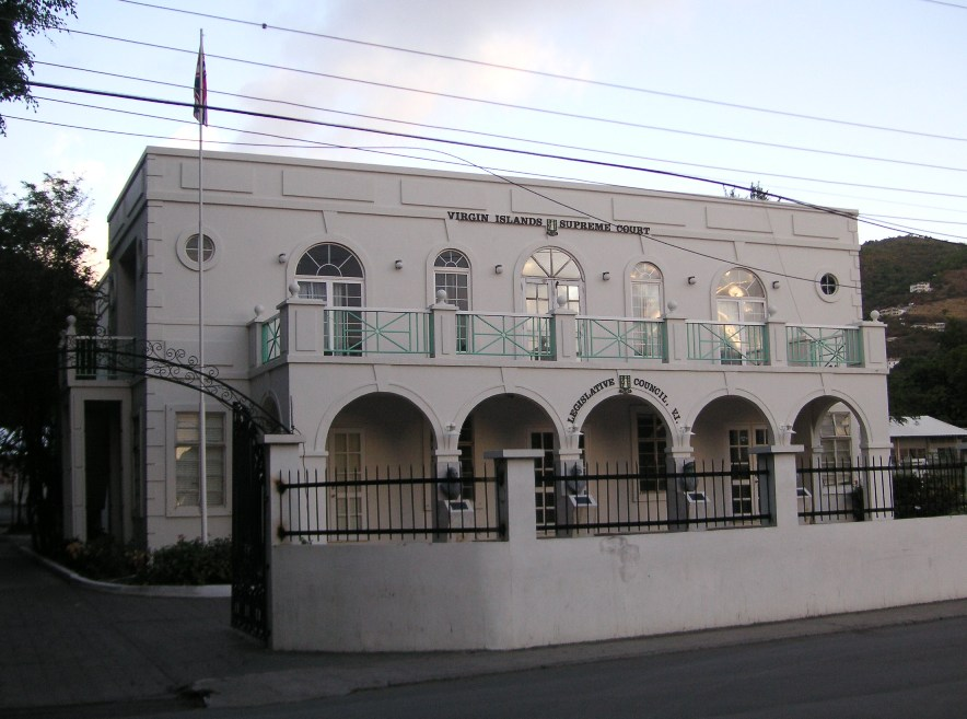 Photograph of the old Legislative Council Building (now used as the High Court) in Road Town, Tortola, British Virgin Islands (February 2007)